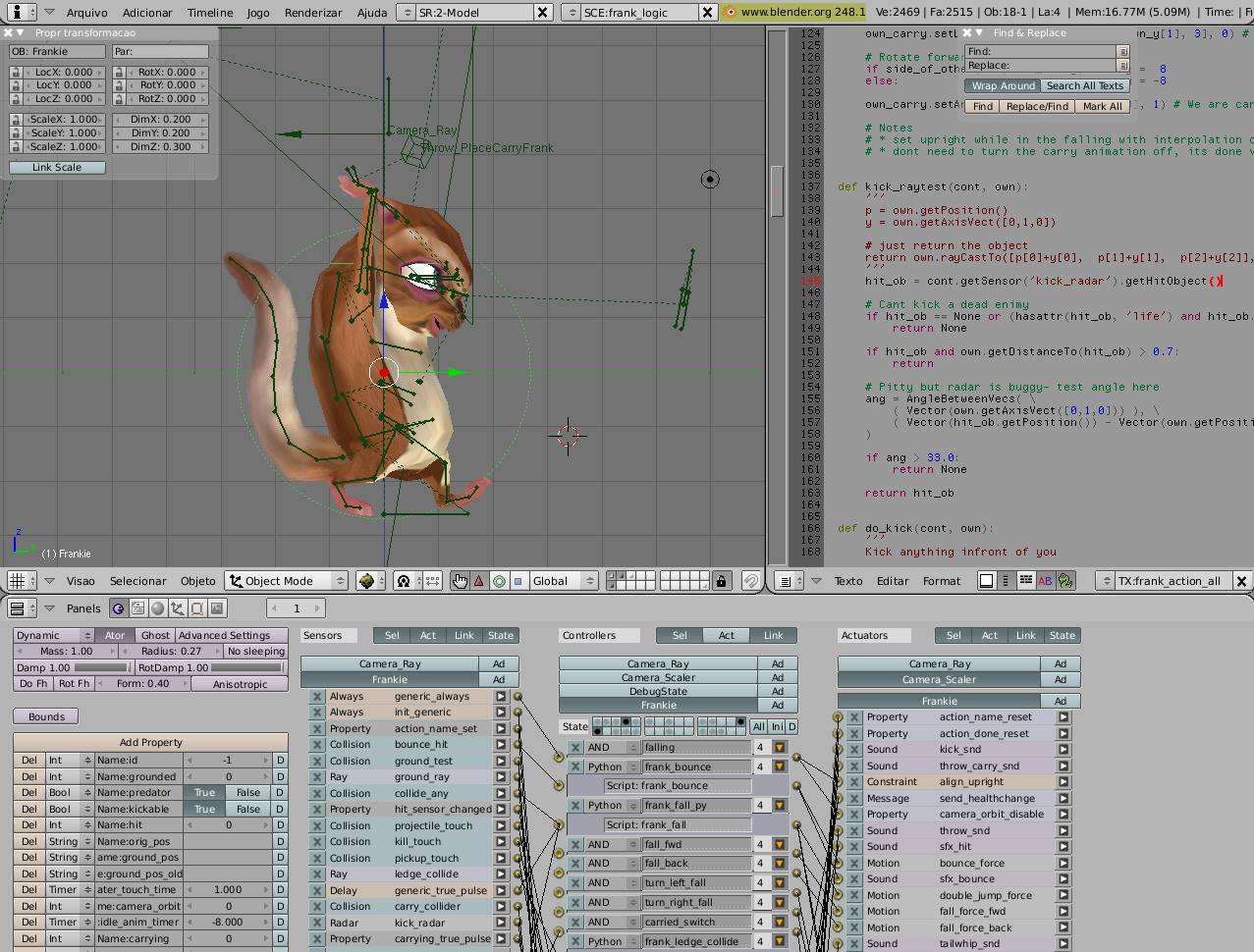 One of the files of the game Yo Frankie!, being loaded in Blender 2.48a